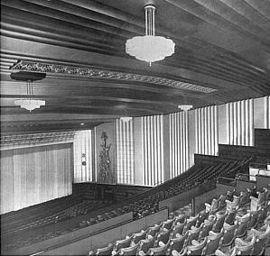 Interior of the Odeon Cinema, Manchester Street, Bradford, which was built in 1938 and demolished in 1969. Since then the Gaumont Cinema opposite (formerly the New Victoria) has been called the Odeon.